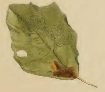 Stainton’s Natural History of the Tineina (1855–1873): Ectoedemia argyropeza mined leaf of Populus tremula